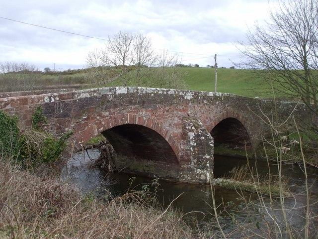 Kersey Bridge, River Ehen On the B5345